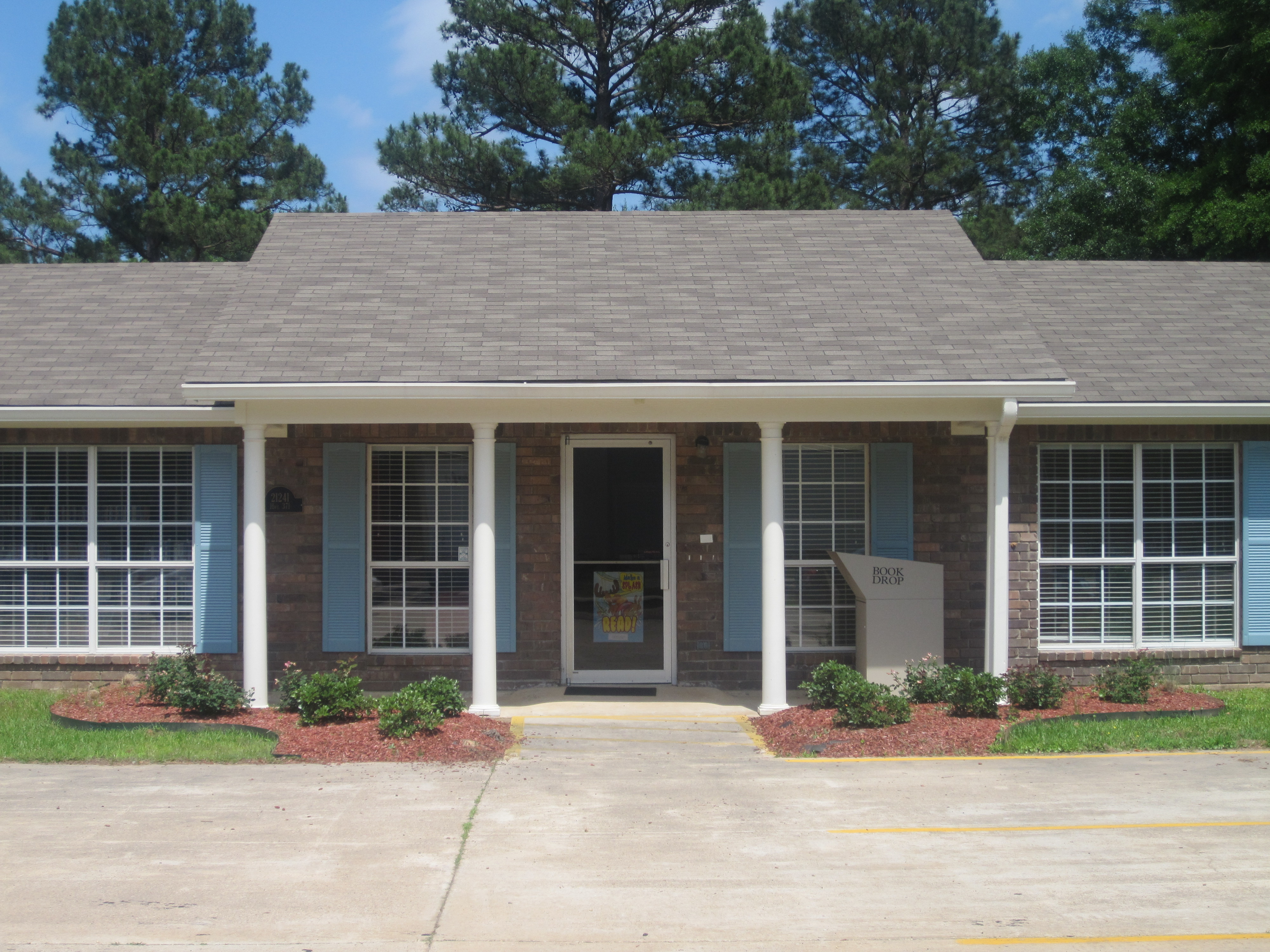 I took photo with Canon camera.